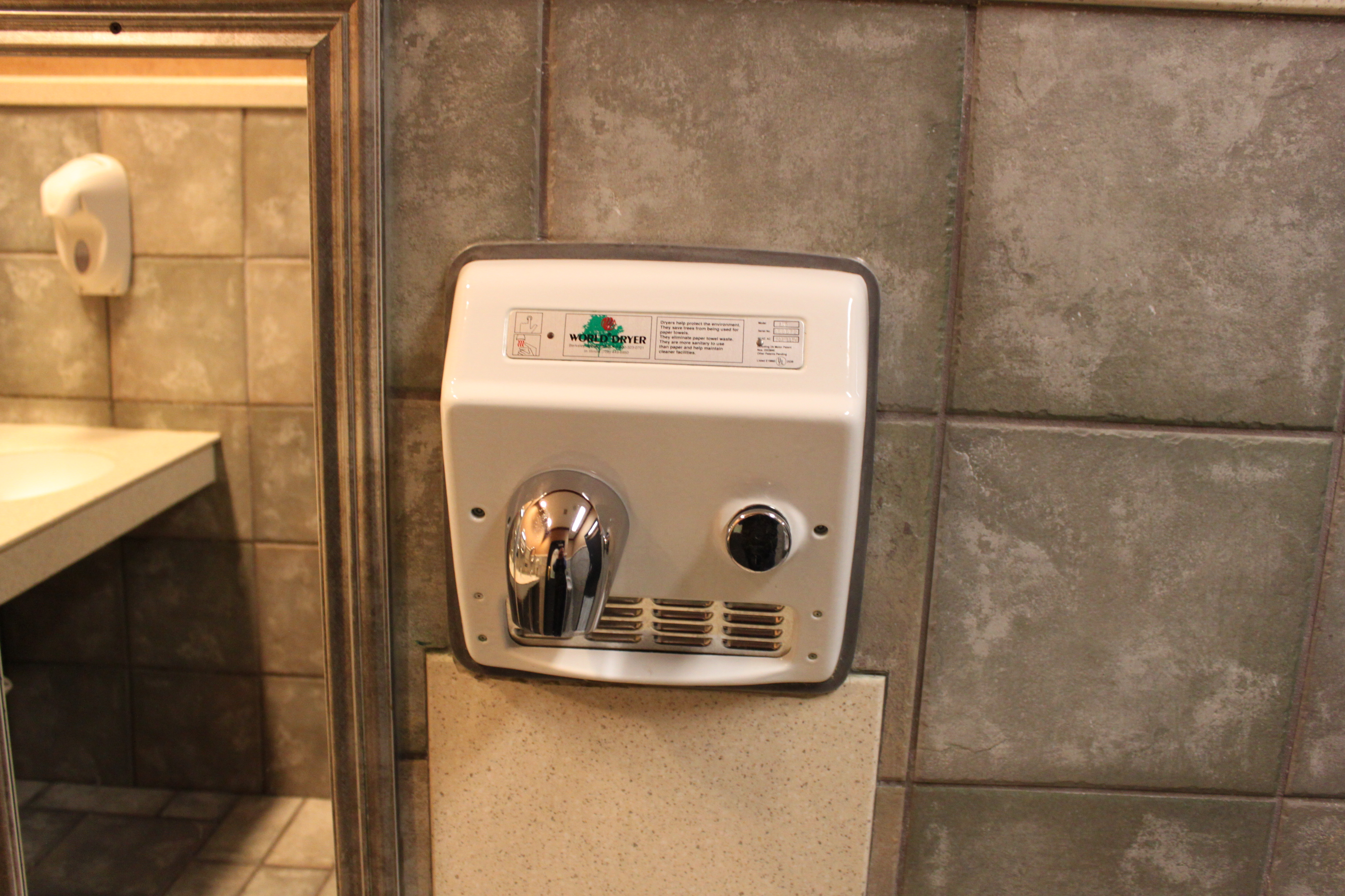 World Dryer hand dryer in McDonald's restaurant public men's room, 21050 Haggerty Road, Farmington Hills, Michigan